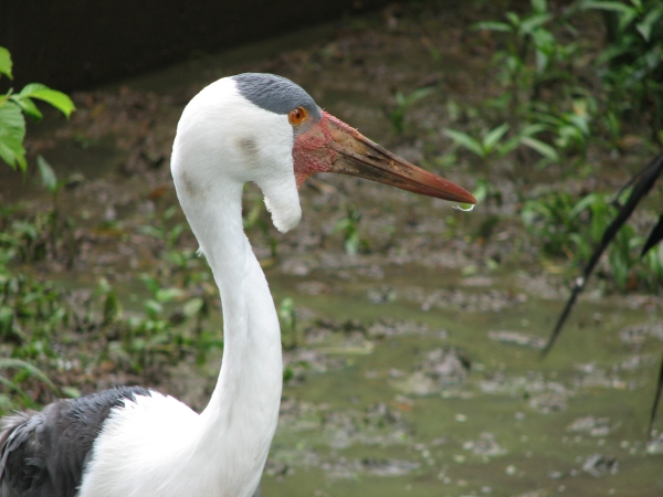 Wattled Crane (Grus carunculata)